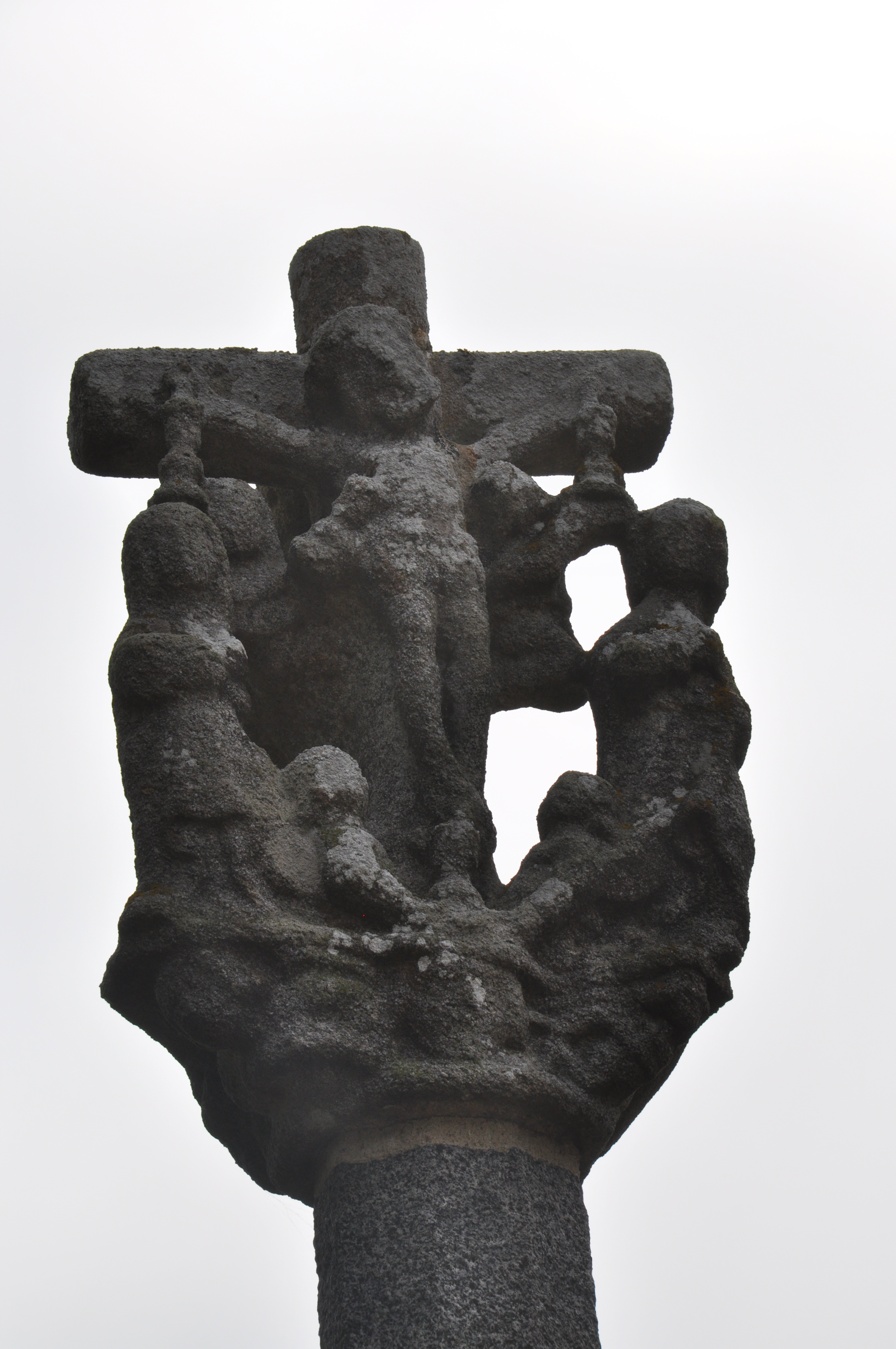 Calvary of Louais street (Saint-Quay-Portrieux, Brittany)